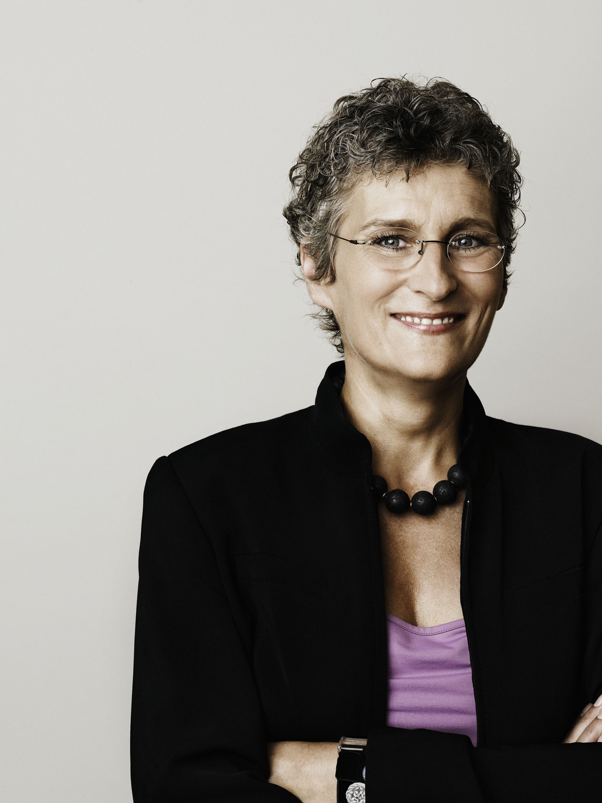 The austrian politician Sabine Mandak, member of the Green Party of Austria